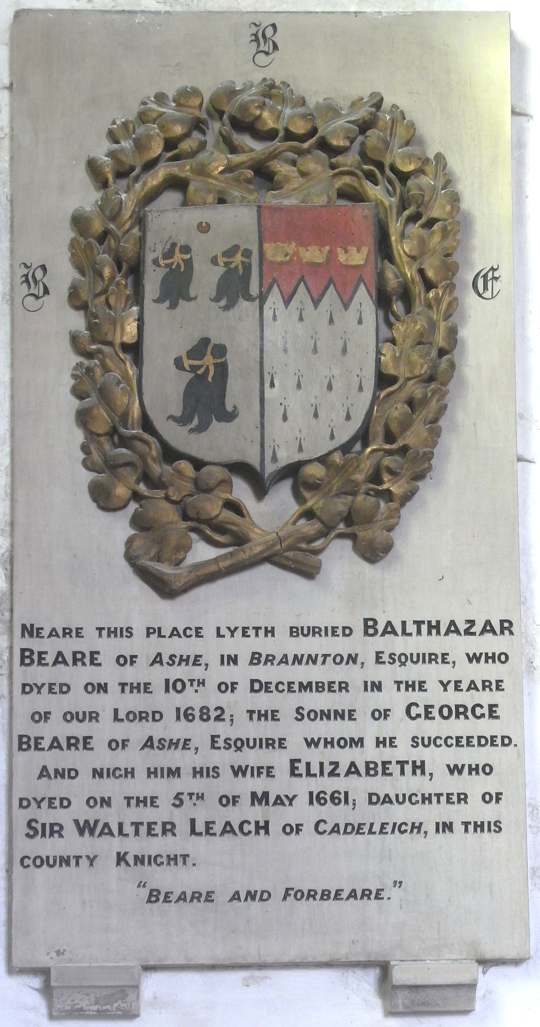 Mural monument to Balthazar Beare (1616-1682) of Ash, Braunton. St Brannock's Church, Braunton, North Devon. Inscribed as follows: "Neare this place lyeth buried Balthazar Beare of Ashe in Brannton, Esquire, who dyed on the 10th of December in the yeare of our Lord 1682; the sonne of George Beare of Ashe, Esquire, whom he succeeded. And nigh him his wife Elizabeth, who dyed on the 5th of May 1661, daughter of Sir Walter Leach of Cadeleigh in this county, knight. Beare and Forebeare" Above within a chaplet is an escutcheon showing the arms of Beare: Argent, three bear's heads and necks erased sable muzzled or[1] impaling Leach, lords of the manor of Cadeleigh: Ermine, on a chief indented gules three ducal coronets or.[2] George Beare was also seated at the estate of Frankmarsh,[3] near Barnstaple[4] and was a barrister of the Middle Temple and a judge of oyer and terminer during the reign of King Charles I.[5]